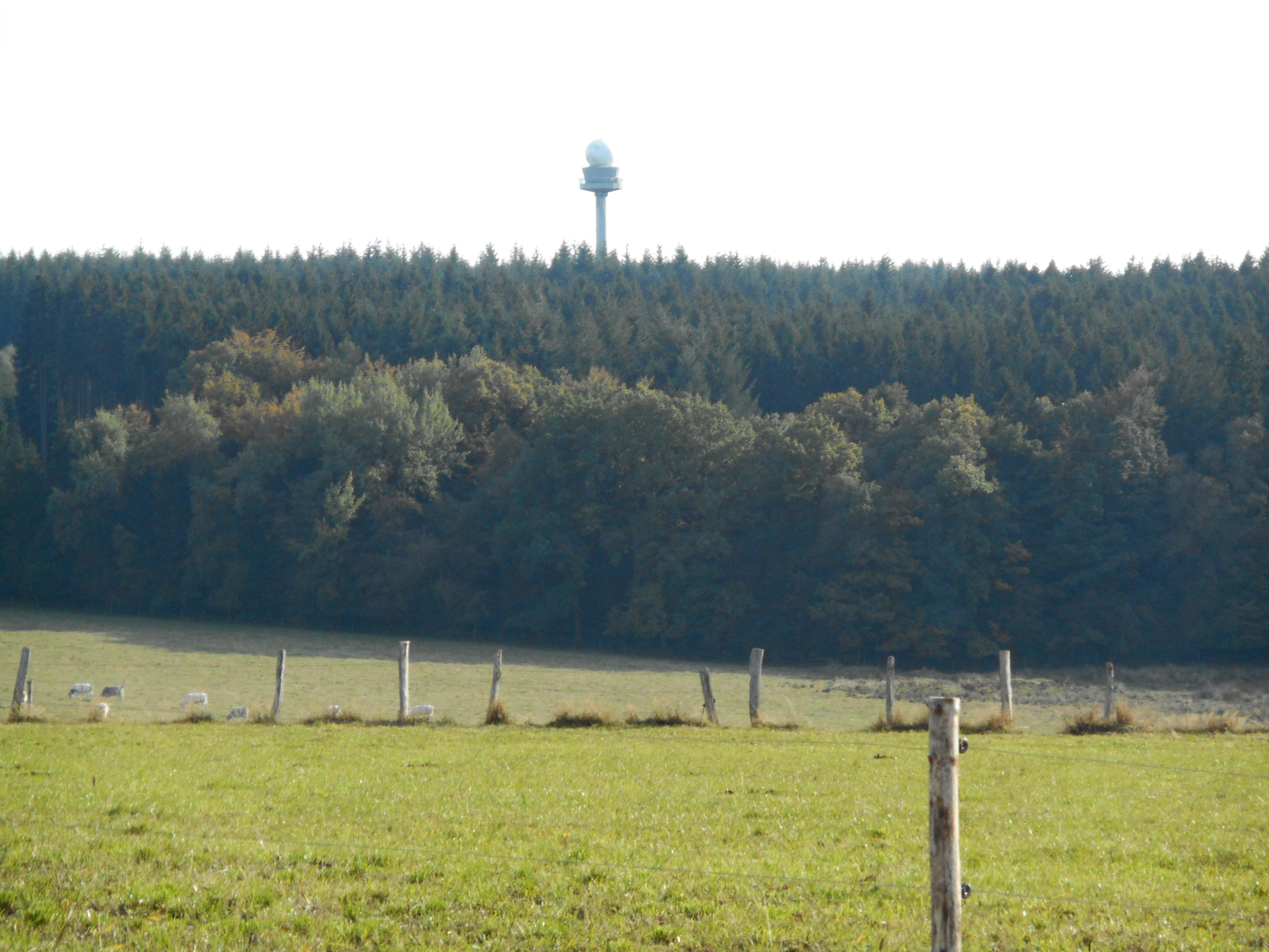 Weather radar at Wideumont in Belgium